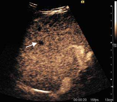 Contrast-enhanced ultrasound of a regenerative nodule in the liver.